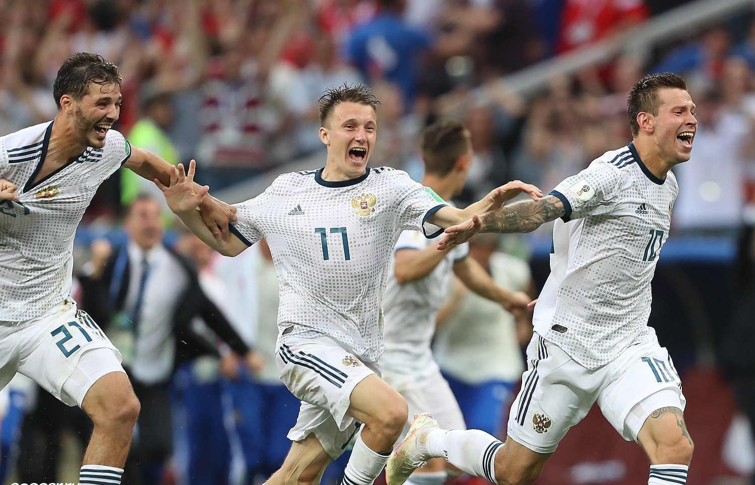 2018 FIFA World Cup Match 51, Russia v Spain